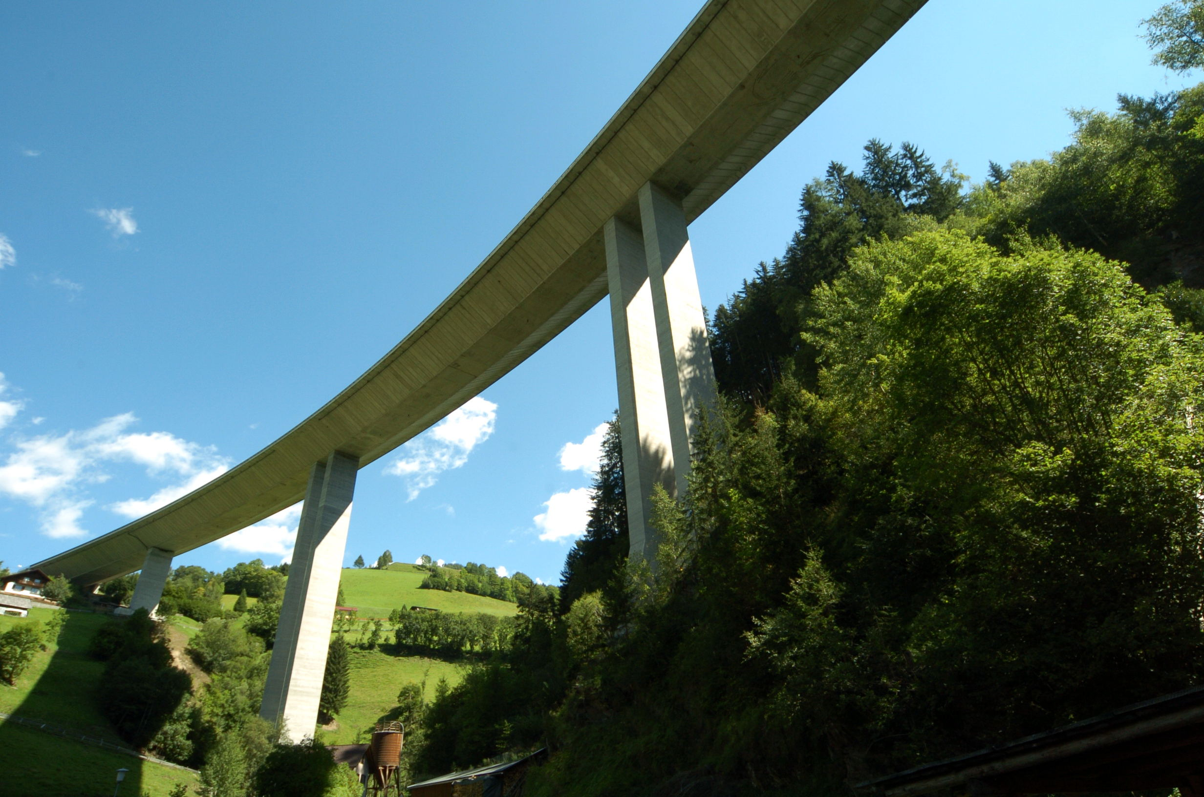 Tauernautobahn bridge across the Innerkrems valley over Kremsbruecke in the community Krems, district Spittal on the Drau, Carinthia, Austria.